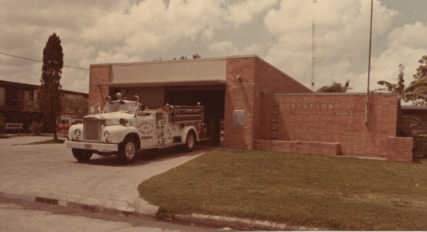 Houston Fire Department Station #37 in 1976